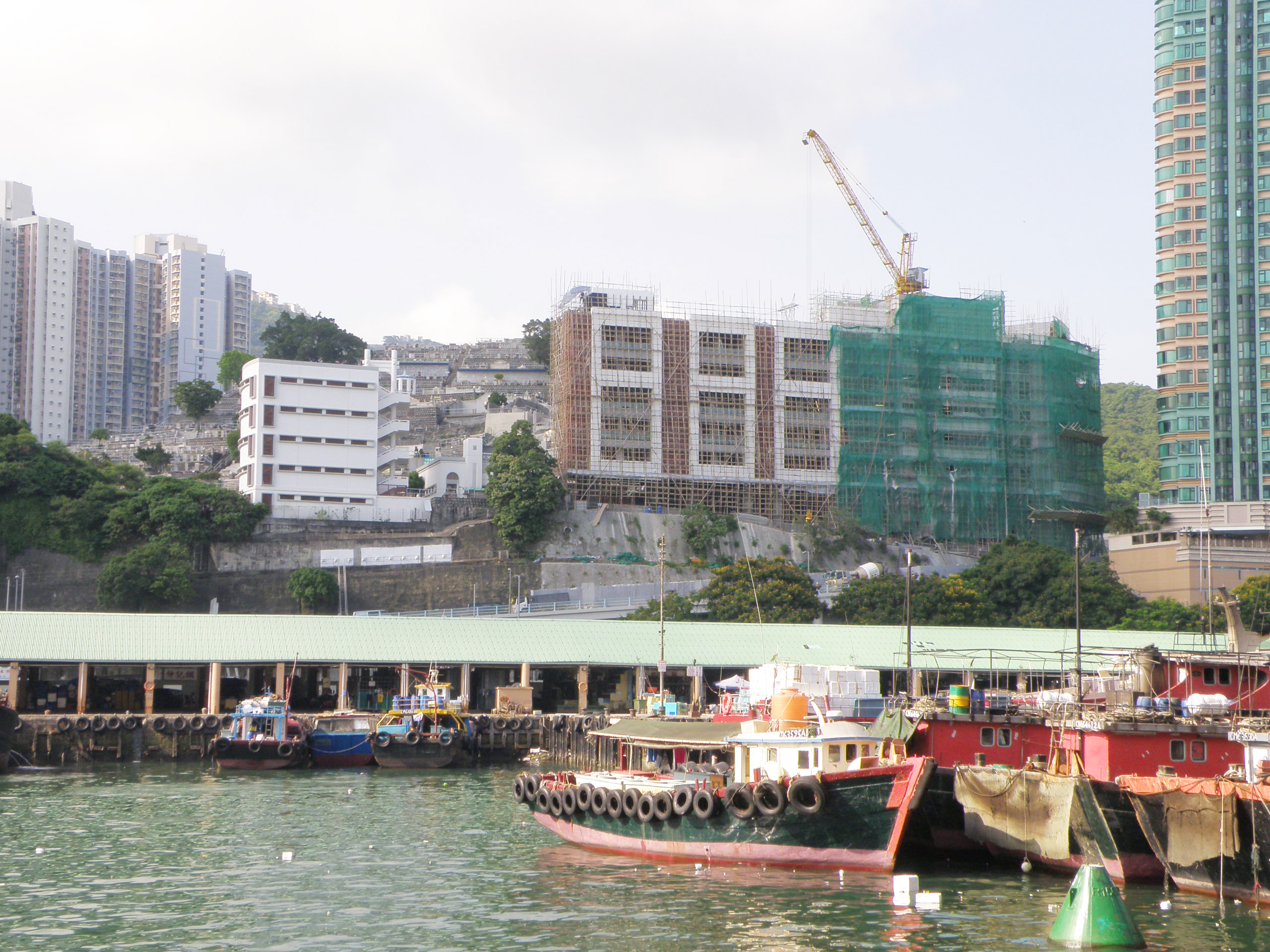 Chinese Permanent Cemetery in Aberdeen, Hong Kong.